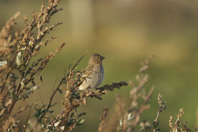 Common Rosefinch (Carpodacus erythrinus), Skaw Common only within its native range, it is a scarce migrant in Britain, although Shetland is easily the best place to see them.